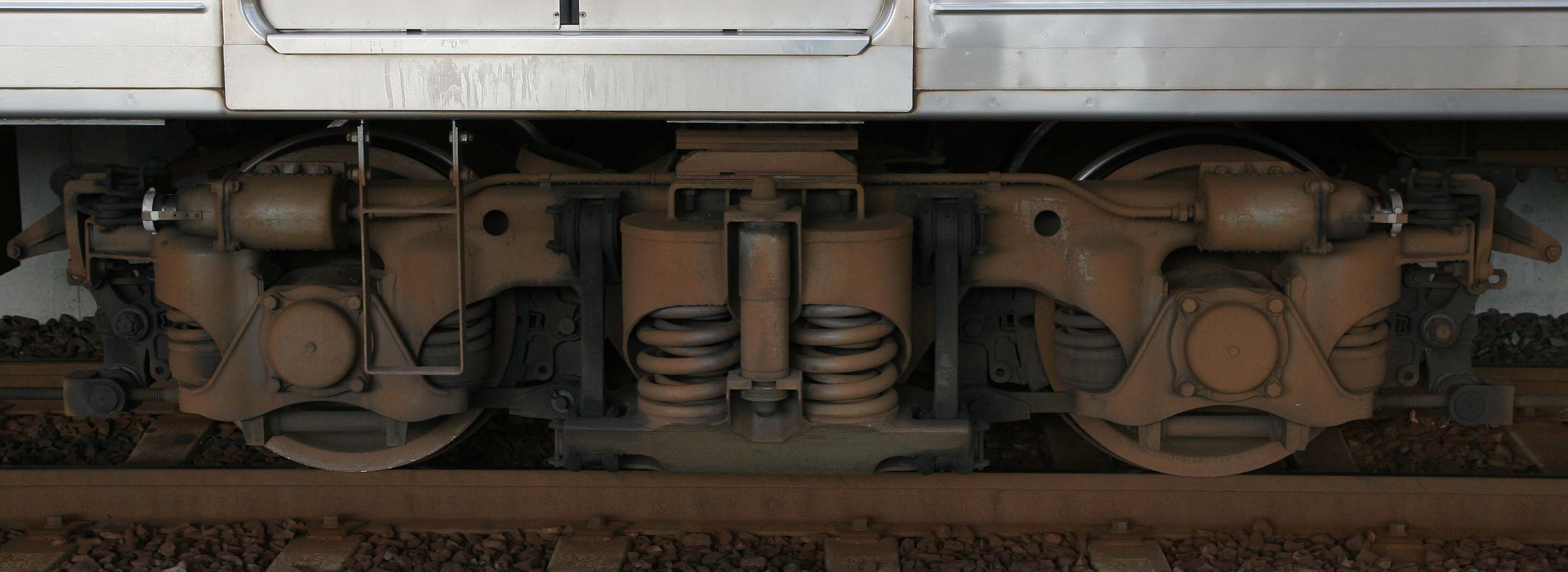 DT21T trailer bogie of JR Shikoku 121 series EMU car KuHa 120-14